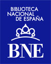 Logo for the National Library of Spain.